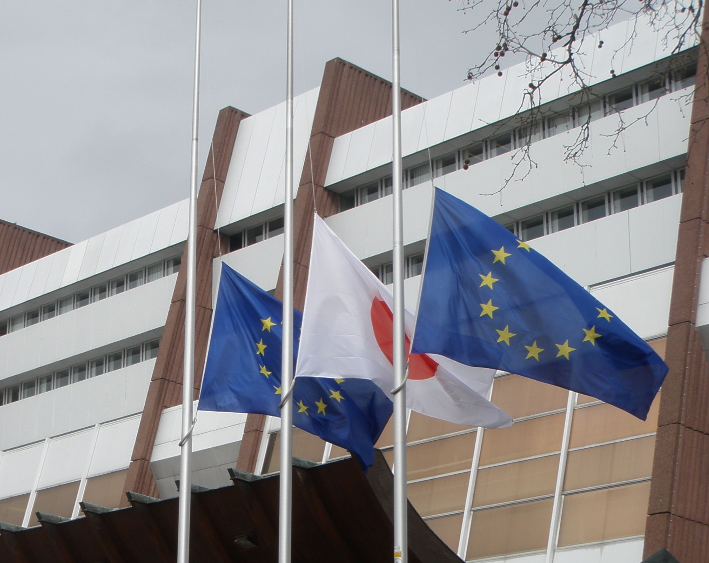 The Flag of Europe and the Japanese flag at half-staff in front of the Council of Europe following the 2011 Japanese Earthquake